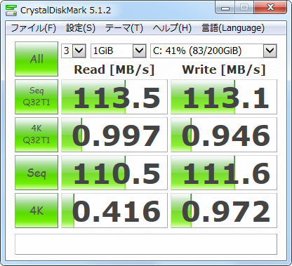 CrystalDiskMark 5.1.2 benchmarks Target:WDC WD5000AAKX-001CA0 OS:Windows7 Professional SP1 32bit